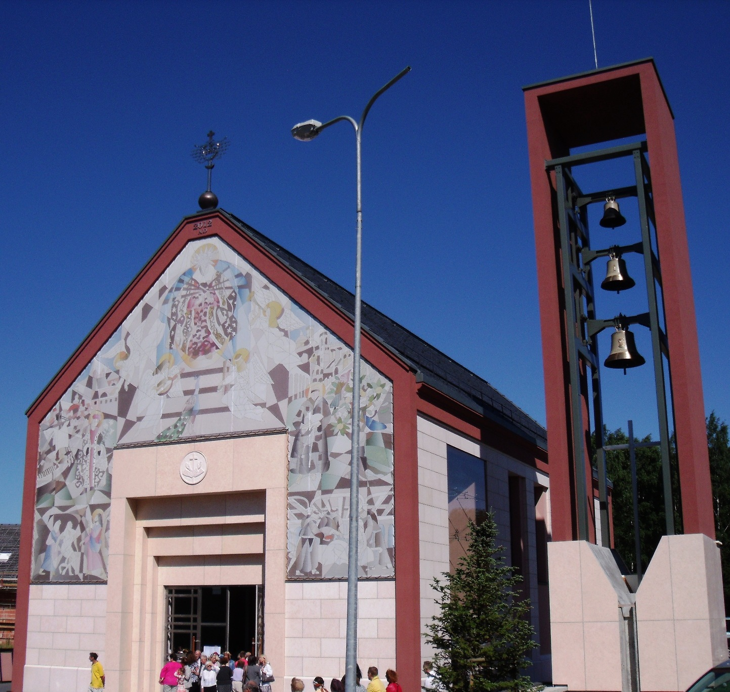 St. Francis Asisi Church. Photo taken in 2013